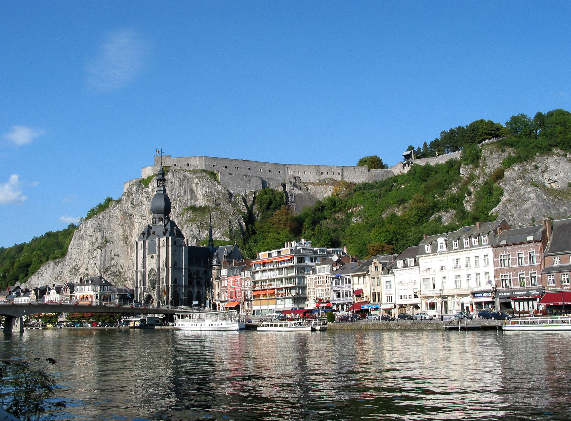 Dinant (Belgium), the Meuse (river), , the city, the collegiate church of Notre-Dame and the Citadel.